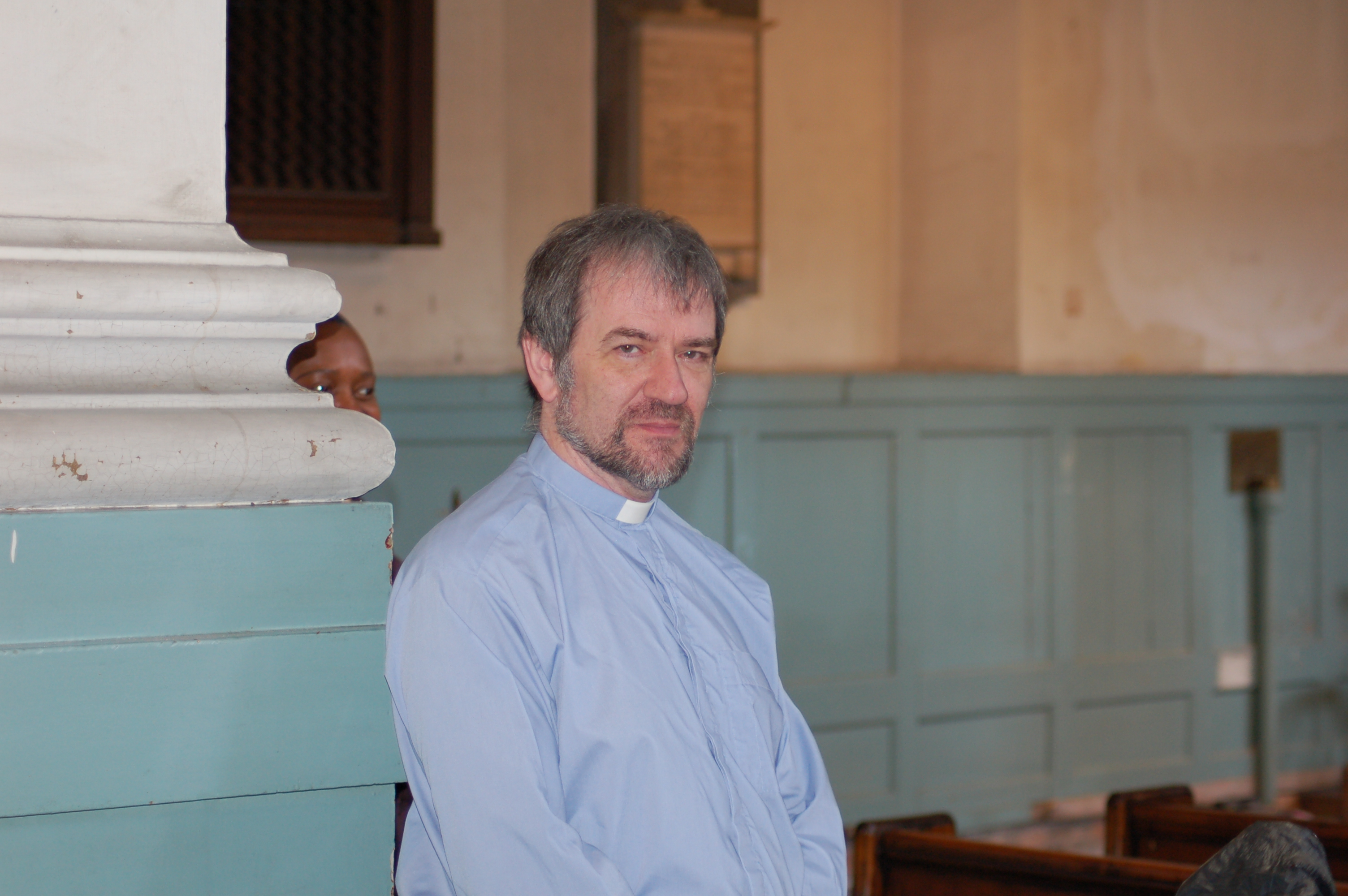 The Revd Paul Turp St Leonards Shoreditch I dunnit, use freely, but pls attribute Kevin Thompson